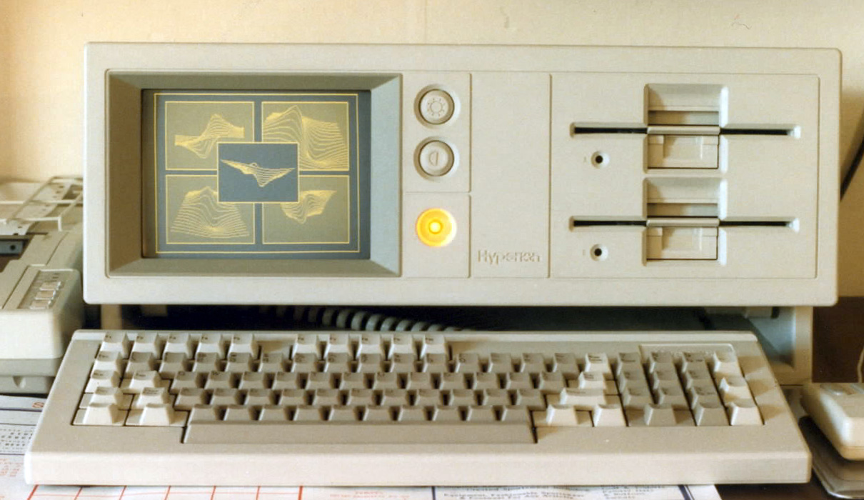 Front view of production Hyperion computer showing graphics screen